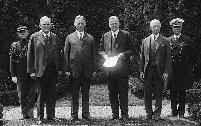 Group, including Henry Stimson, 3rd from left, Herbert Hoover, center, and Charles Adams, 2nd from right